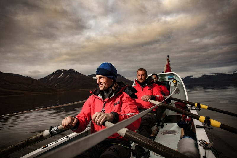 Fiann Paul, Alex Gregory and Carlo Facchino aboard Polar Row, departing from Longyearbyen, Svalbard.